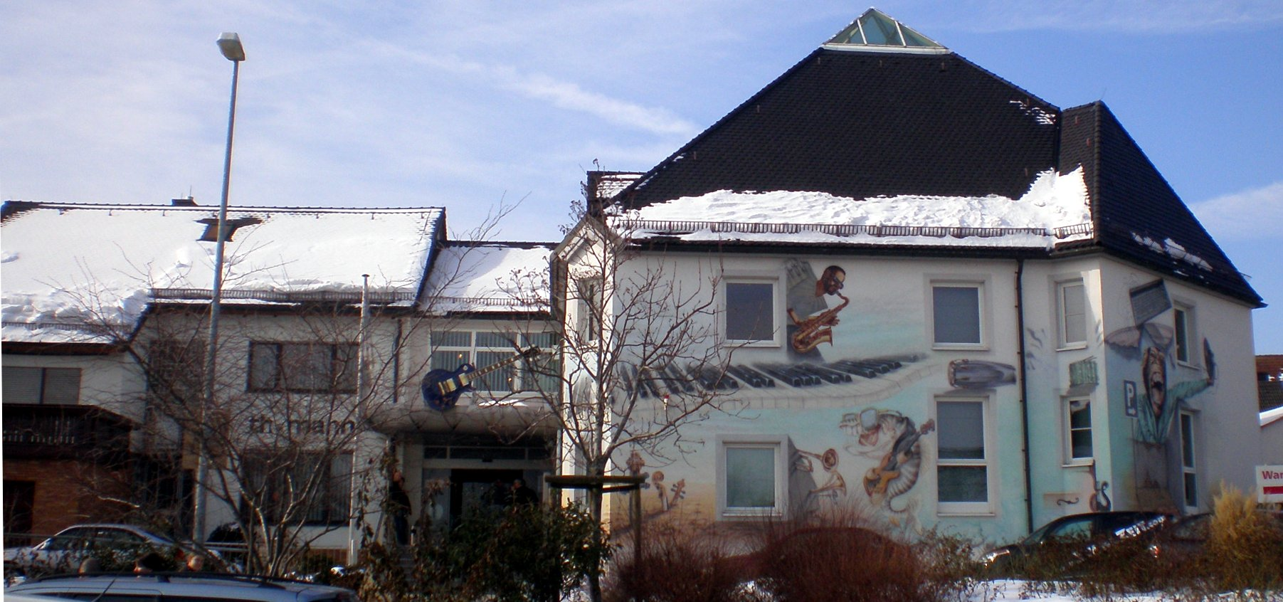 Main entrance of Musikhaus Thomann